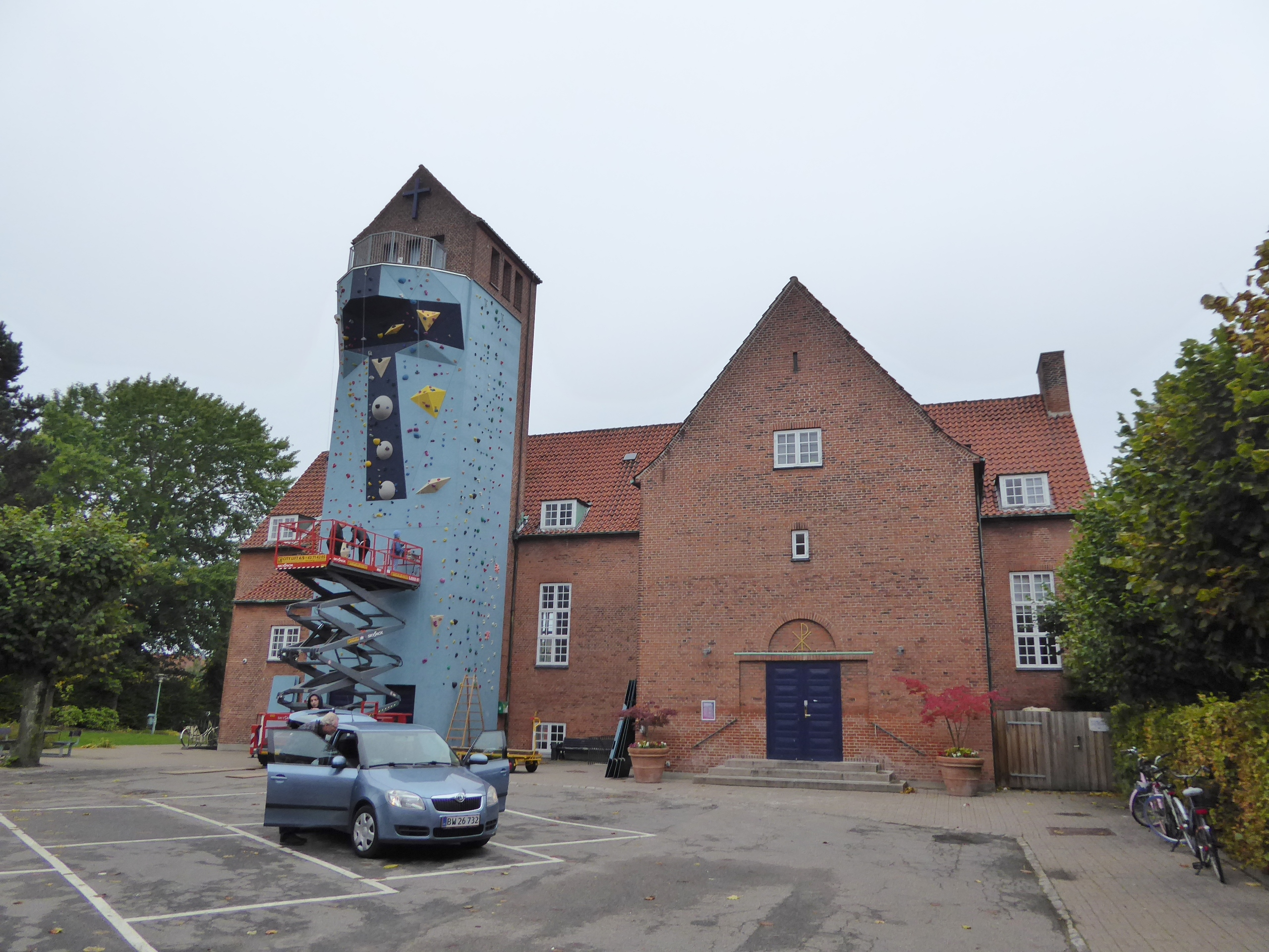 Frederiksholm Kirke at Louis Pios Gade in Kongens Enghave in Copenhagen. The climbing wall on the church tower was added in 2014.